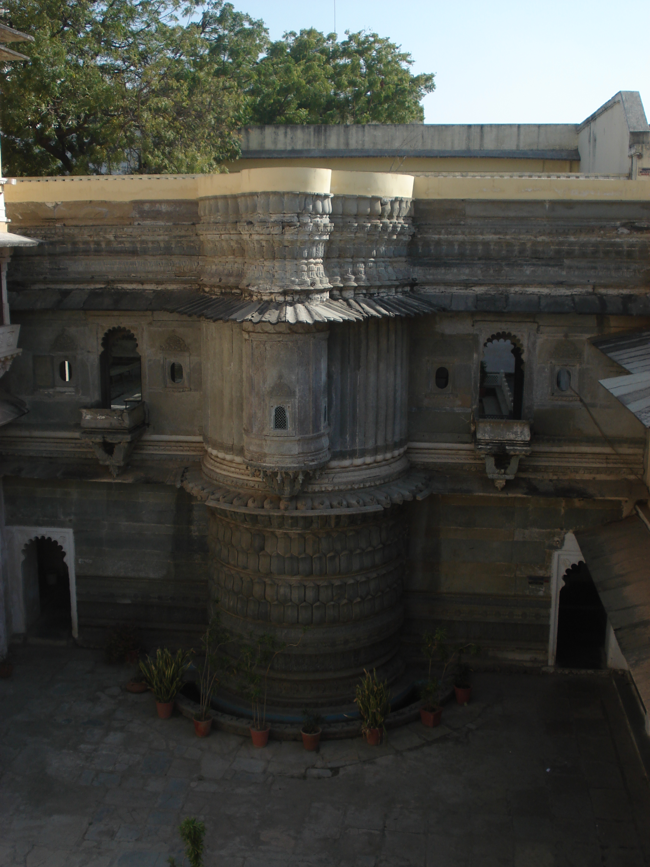 View of the entrance Court upon entering Bagore-Ki-Haveli